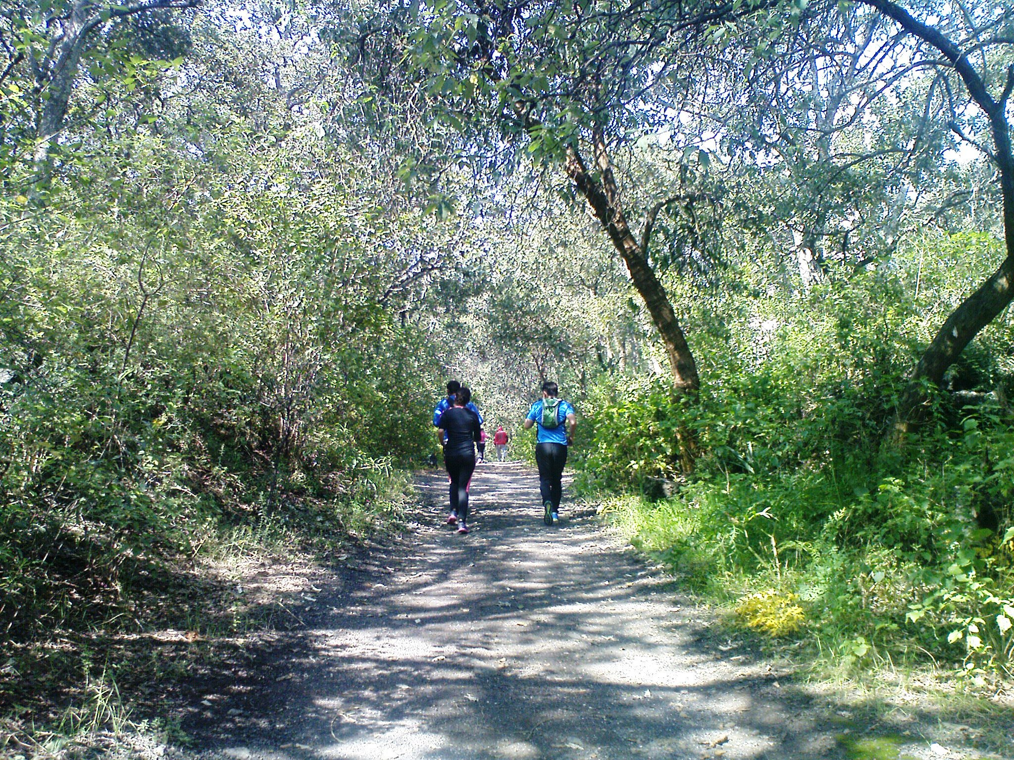 Woods of Tlalpan